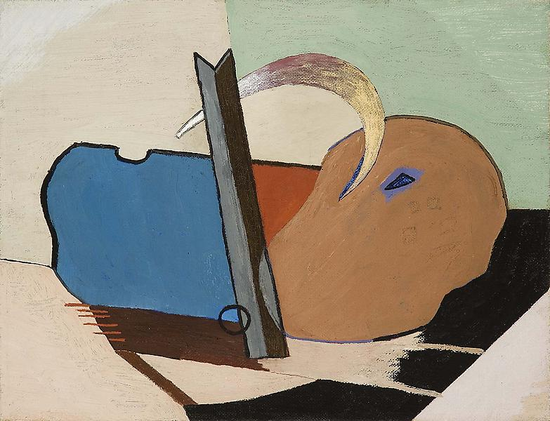 Albert Eugene Gallatin, Untitled, 1940, oil on canvas 8⅛ x 10⅛ inches, signed and dated